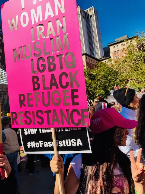 A woman holding a sign at the 2017 Women's March in Los Angeles.